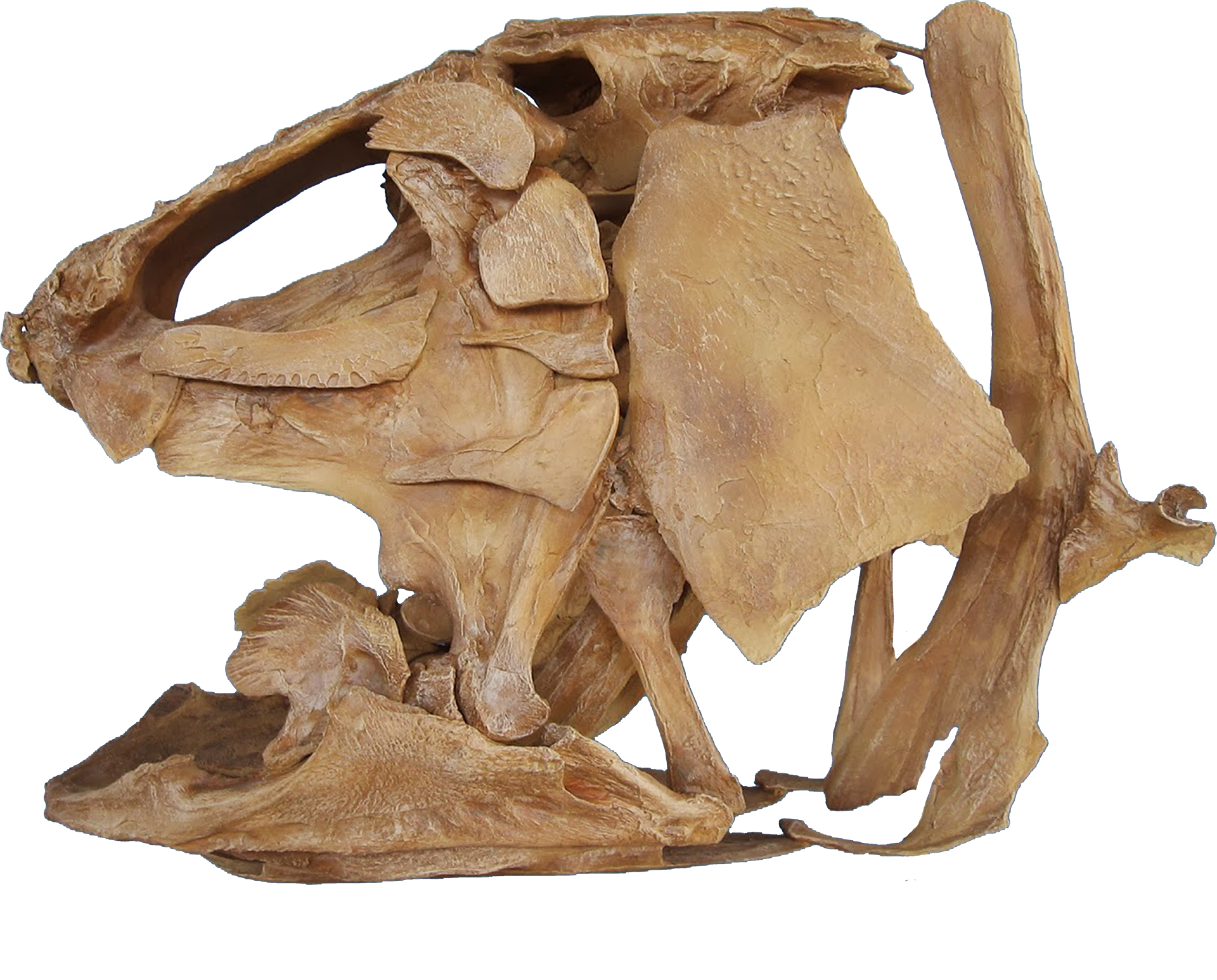 Megalocoelocanthus dobiei mounted skull in the Rocky Mountain Dinosaur Resource Center in Woodland Park, Colorado